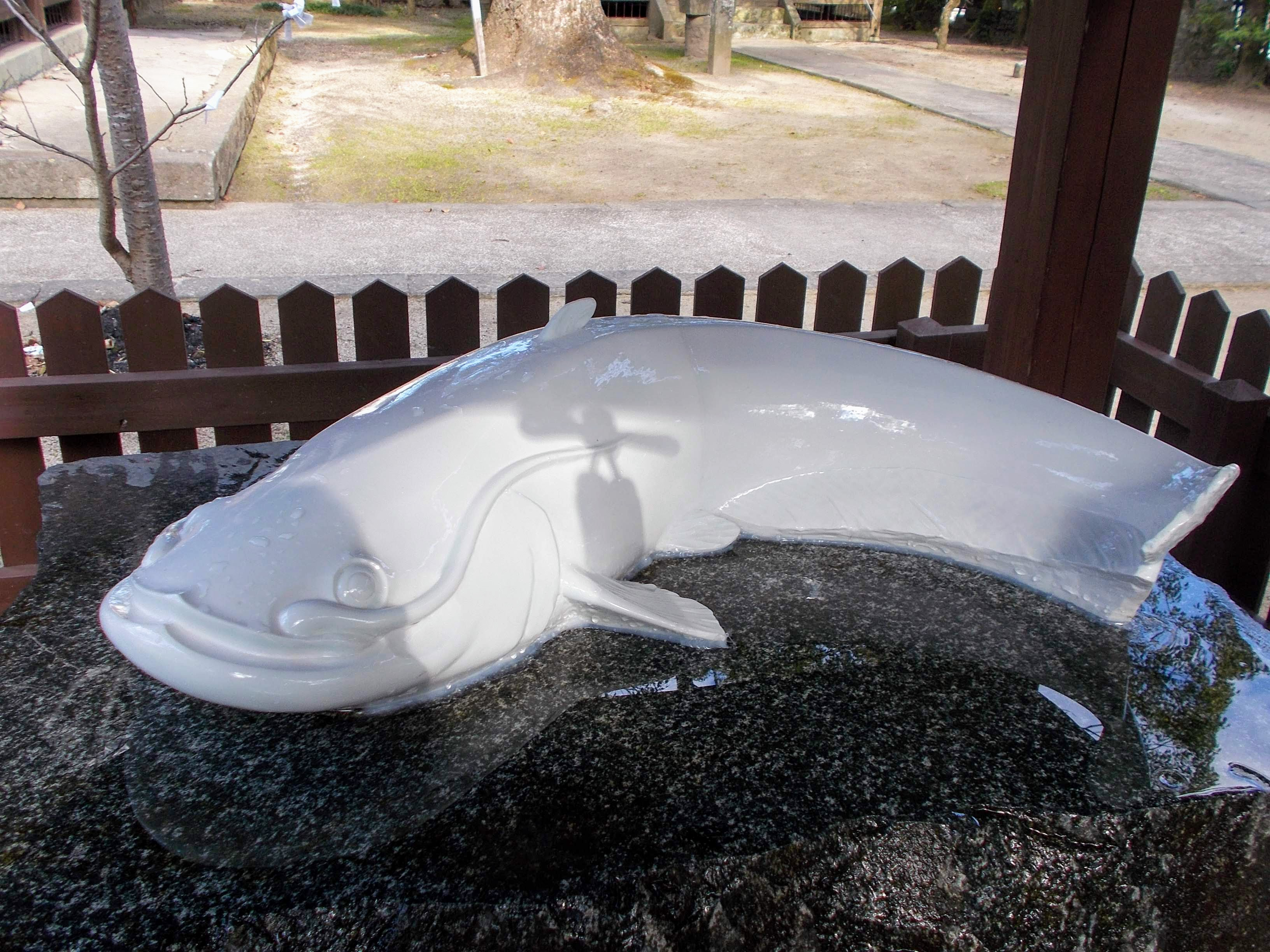 The statue of catfish, made of white porcelain, is enshrined in Toyotamehime-jinja, Ureshino, Saga, Japan.